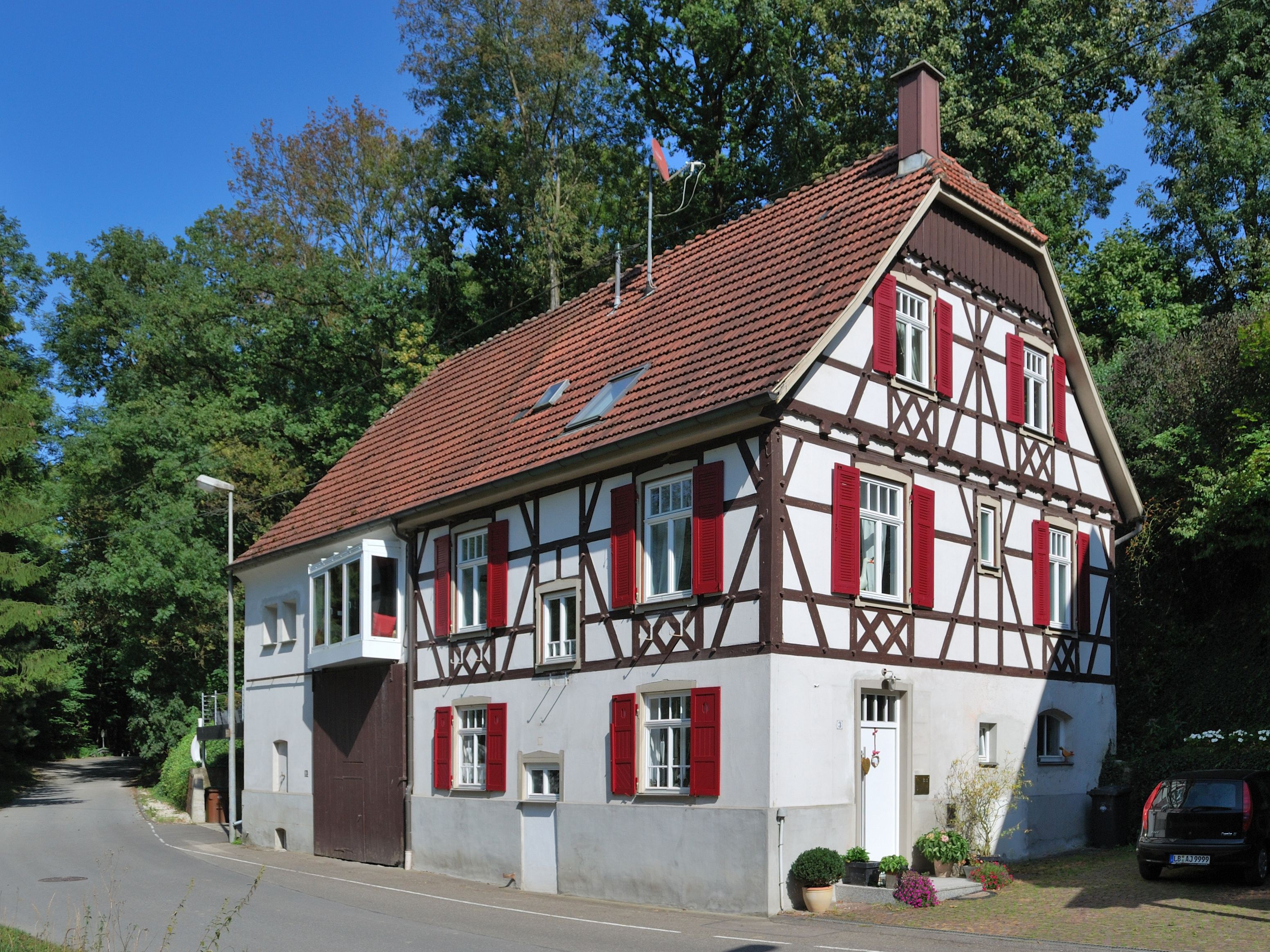 The apartment building once belonging to the paper mill on the river Glems in Talhausen, a district of the city Markgröningen in Baden-Württemberg in Germany. Handmade paper was produced in the paper mill since 1788. In the beginning of the 19th century the mill counted among the most important paper mills in Baden-Württemberg. The factory building was demolished in 1971.